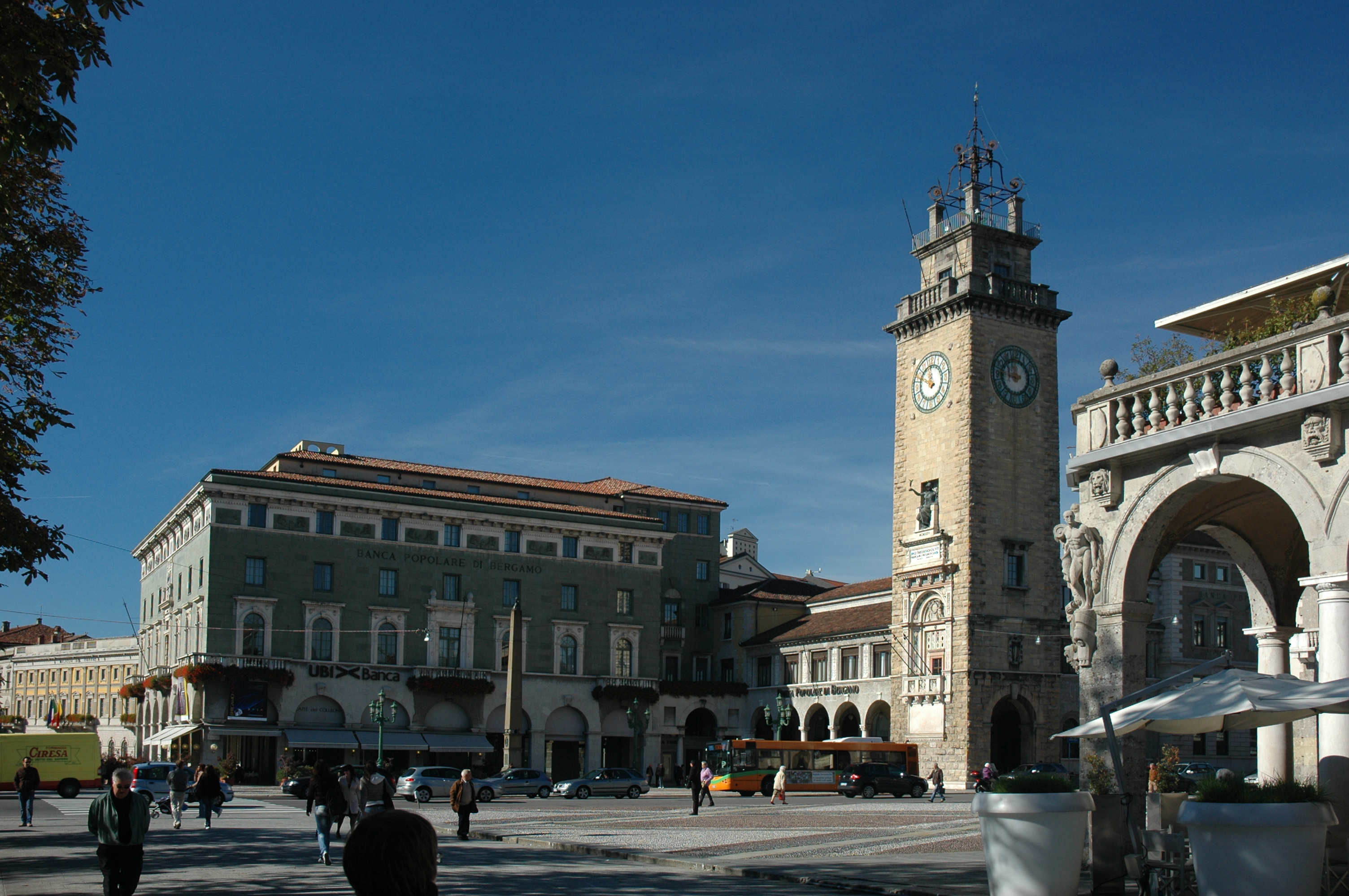 Country : Italy Region : Lombardy Province : Bergamo (BG)